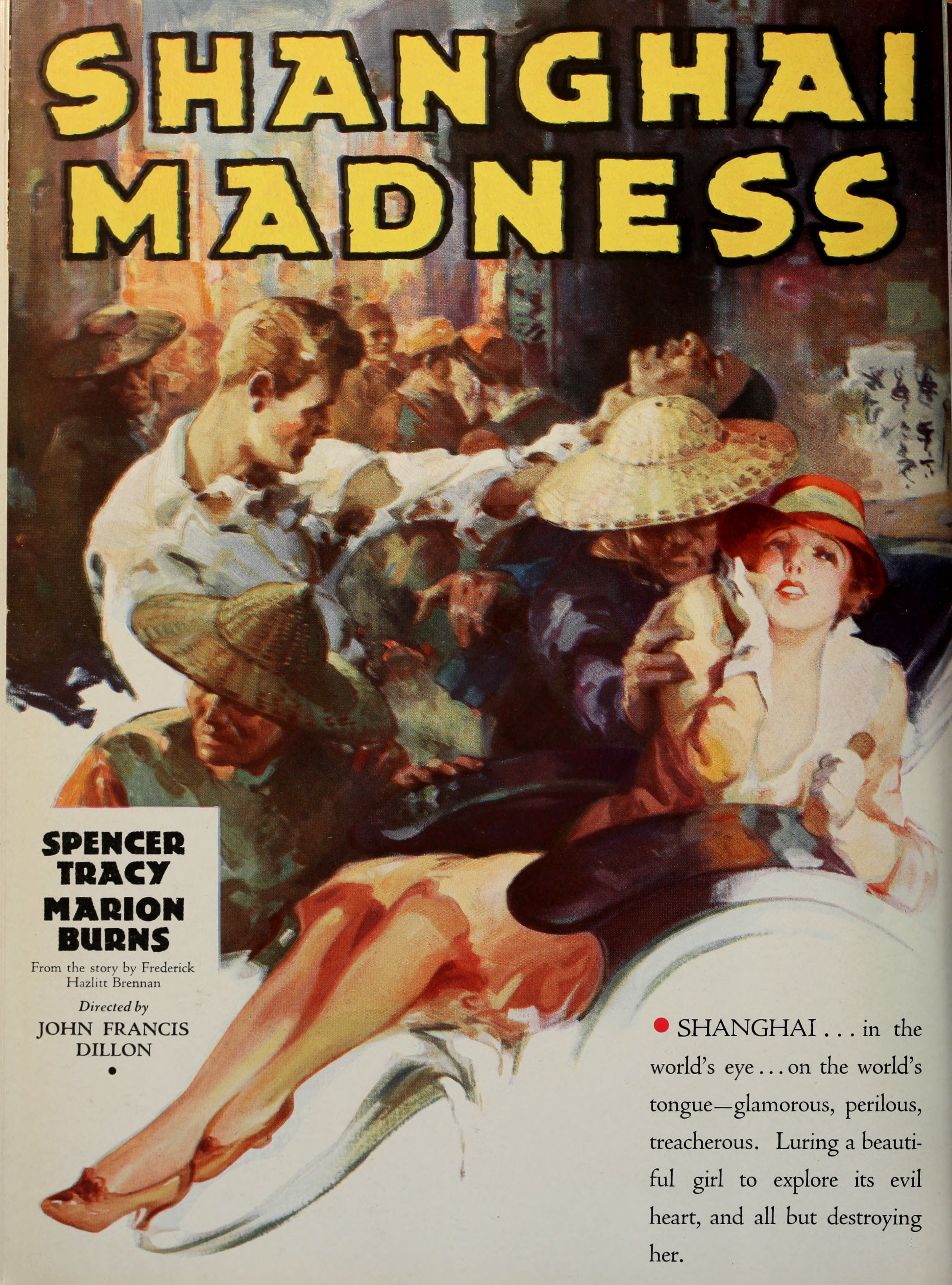 promotional material for the proposed film Shanghai Madness, said to feature Spencer Tracy and Marion Burns. The film was released with Fay Wray opposite Tracy instead of Burns.